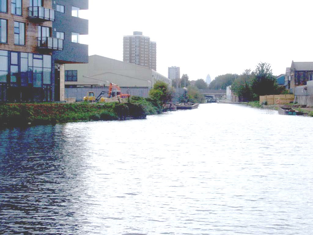 Confluence of Hertford Union Canal and the River Lee, photo by Salimfadhley